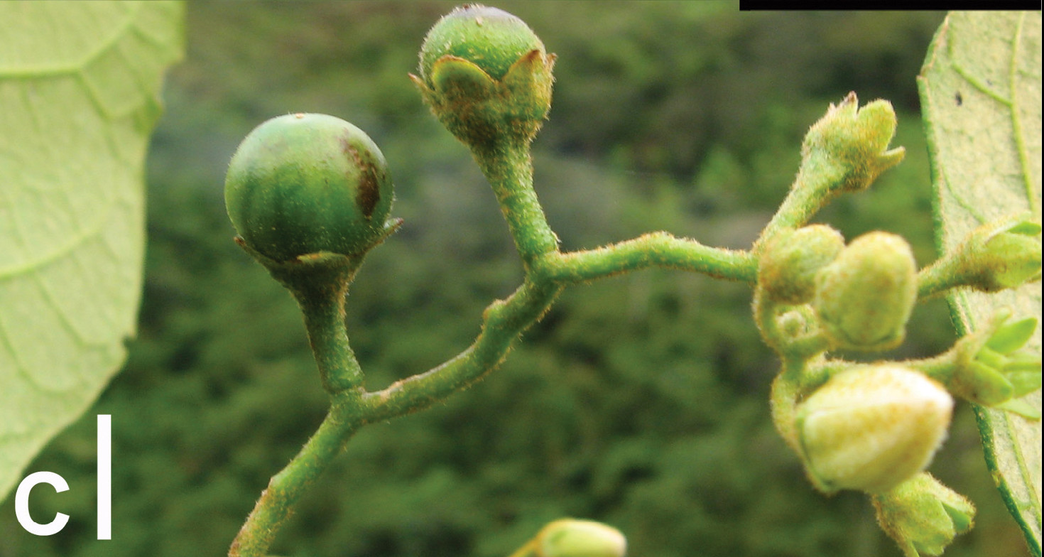 Inflorescence and immature fruits. Scale bars = 1 cm.